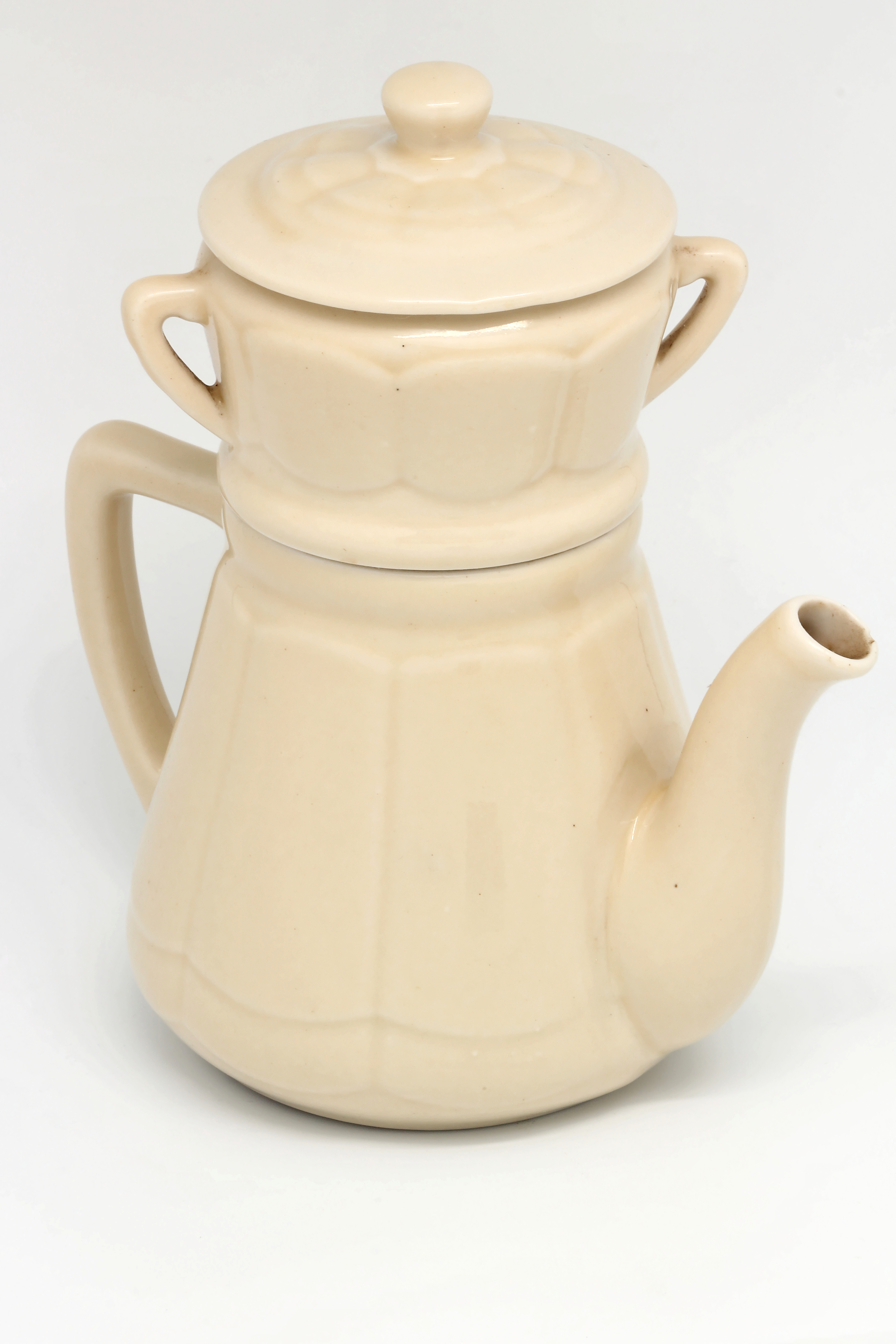 Coffeemaker.